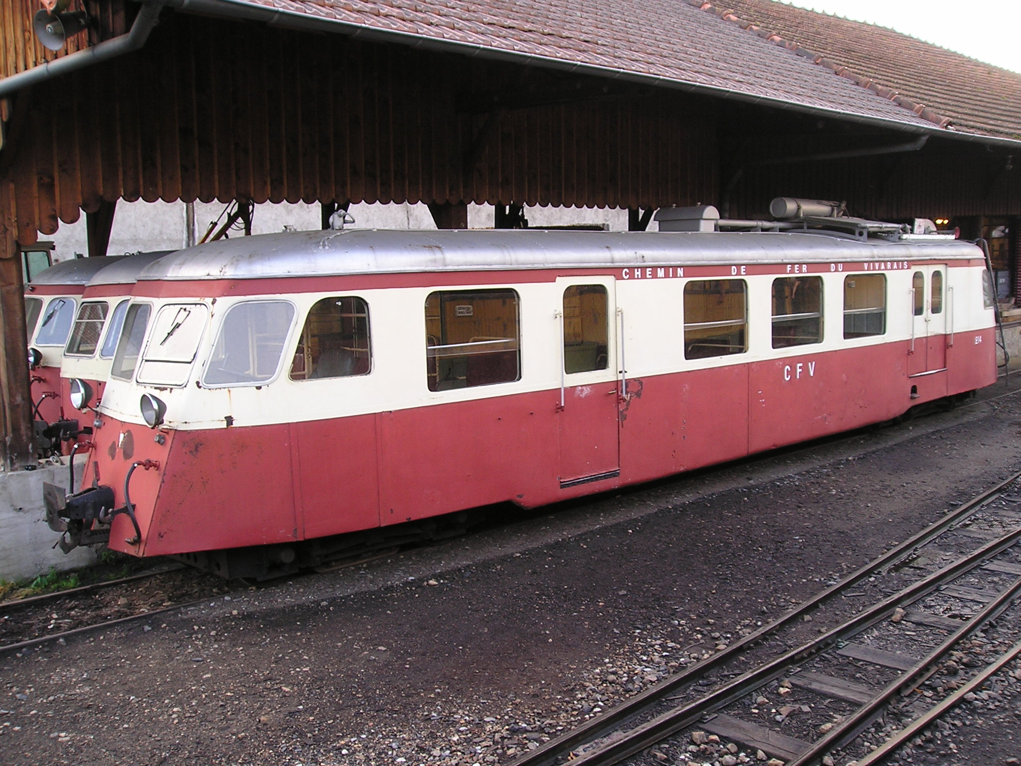 Billard narrow gauge from in the Lamastre Station of the french touristic line Chemin de Fer du Vivarais